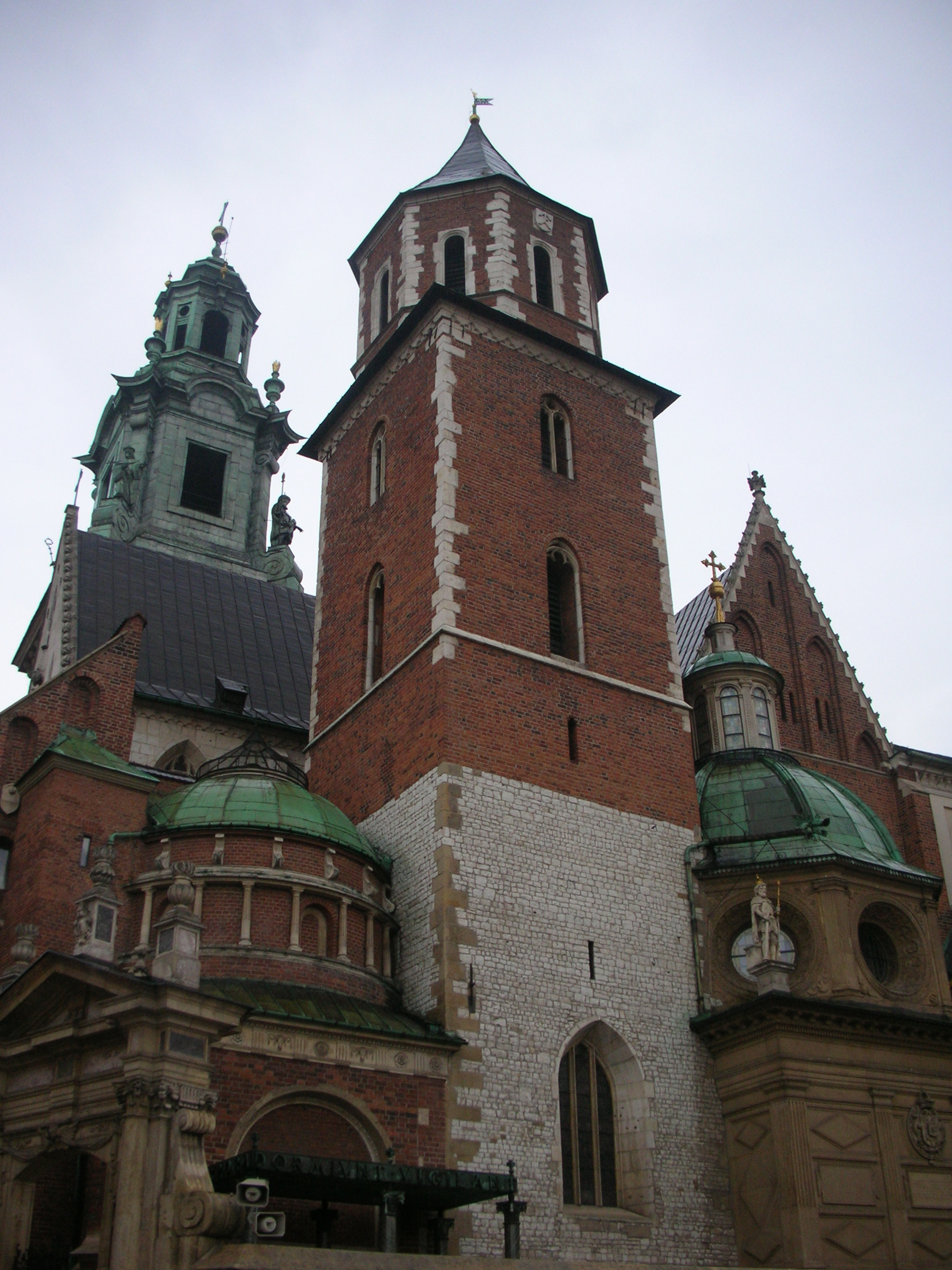 Cathedral of Wawel in Krakow (Poland)